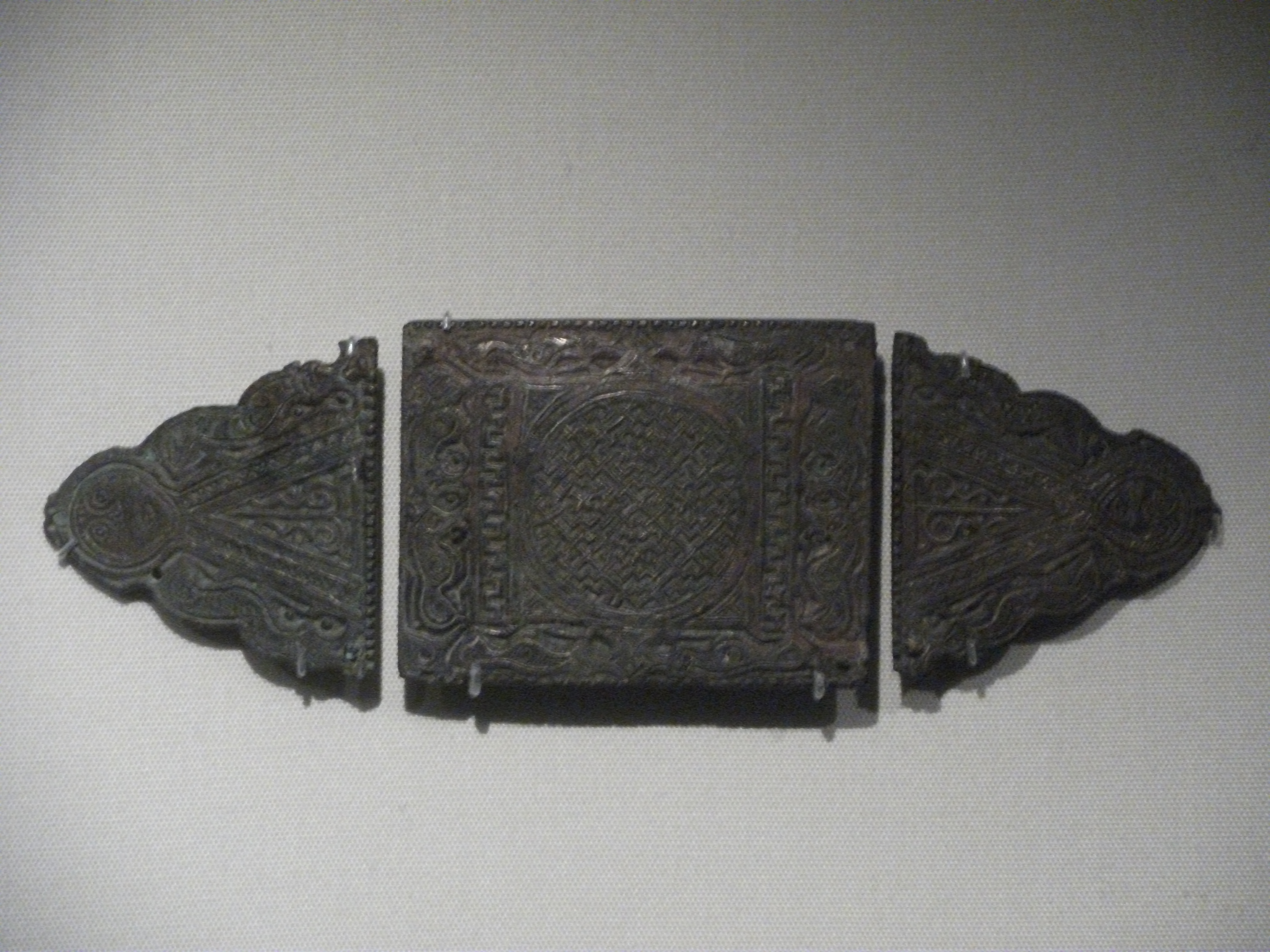 Mucking belt fittings, Room 41, British Museum